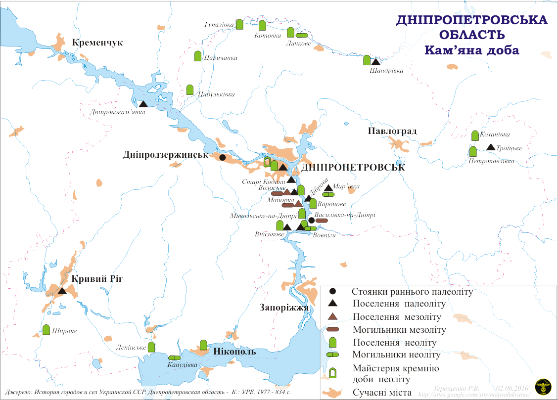 Dnipropetrovsk region. Stone Age archaeological sites.